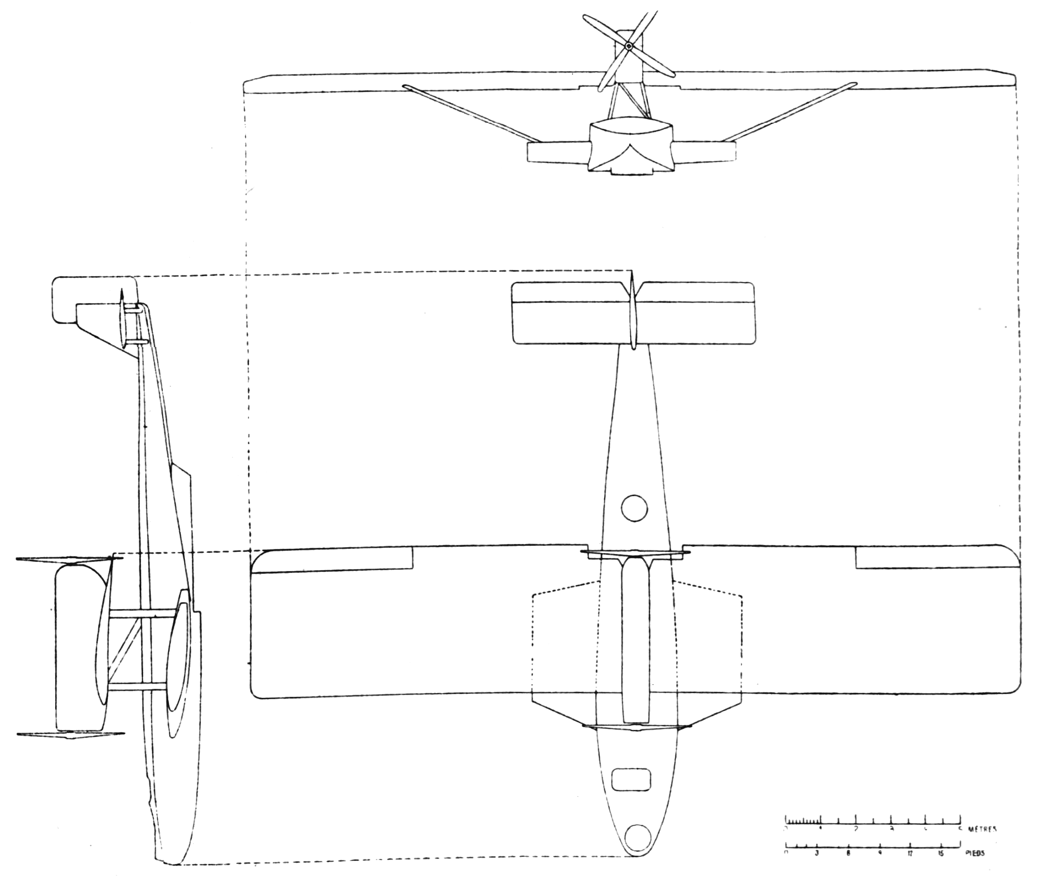 Dornier Do J Wal 3-view drawing from L'Aéronautique March,1926